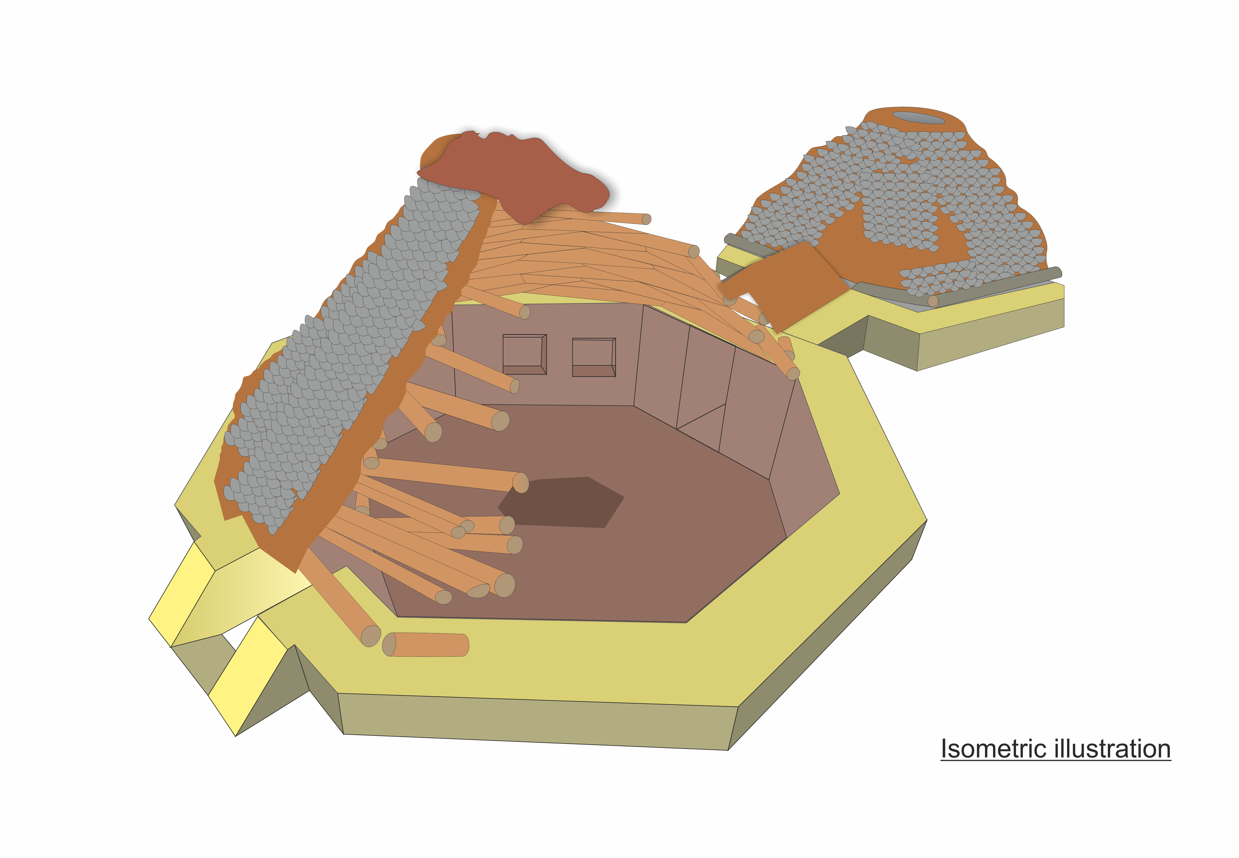 The illustration shows isometric view of Botai house